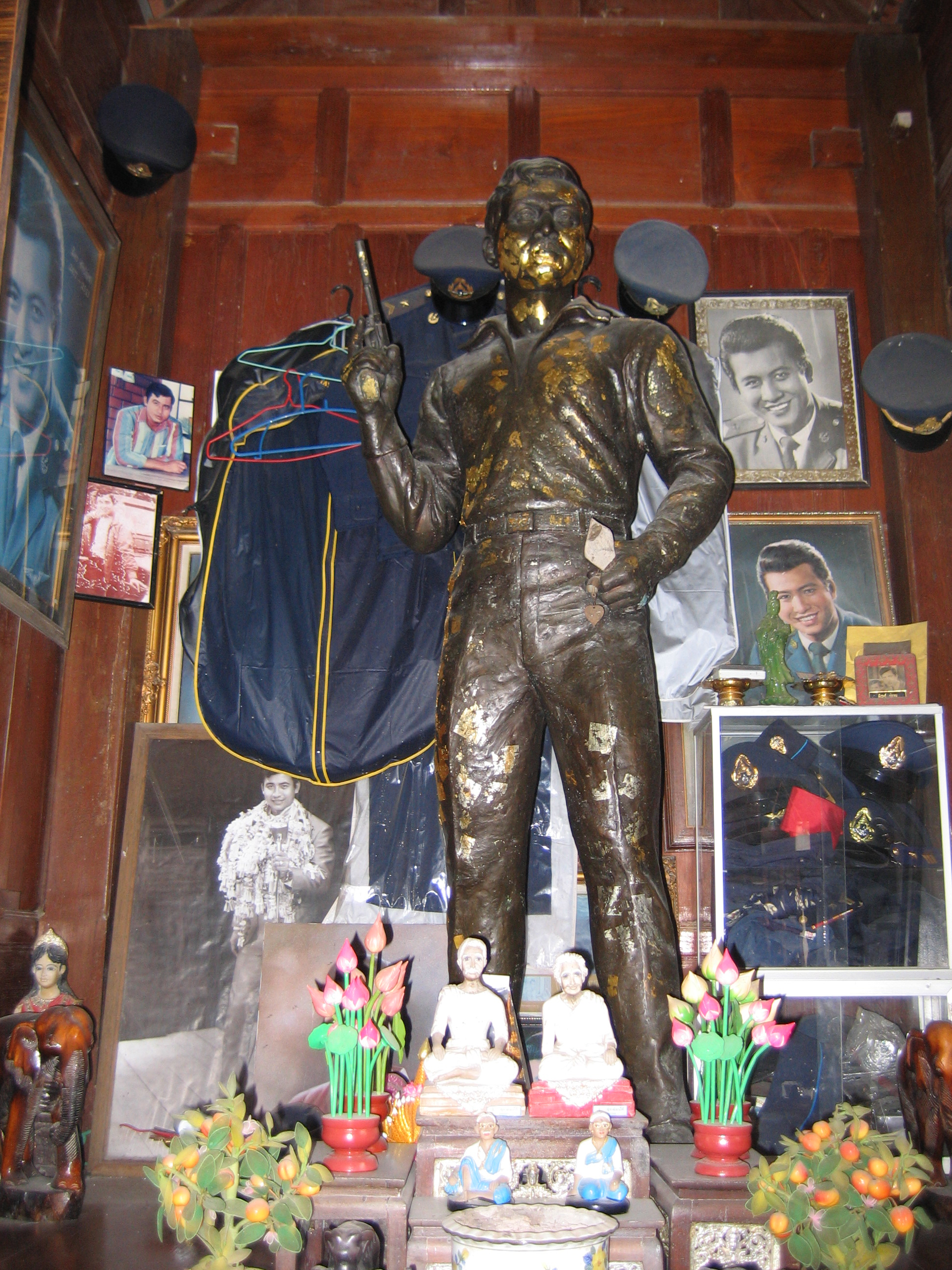 A statue of Thai actor Mitr Chaibancha in a shrine in Jomtien Beach, Pattaya, Thailand.